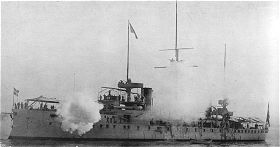 Battleship Psara of the Royal Hellenic Navy.